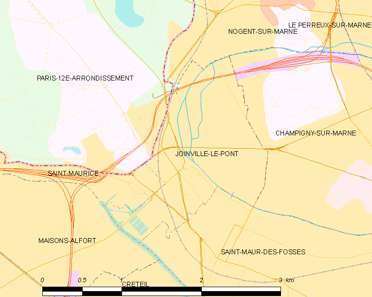 Map of French municipality Joinville-le-Pont